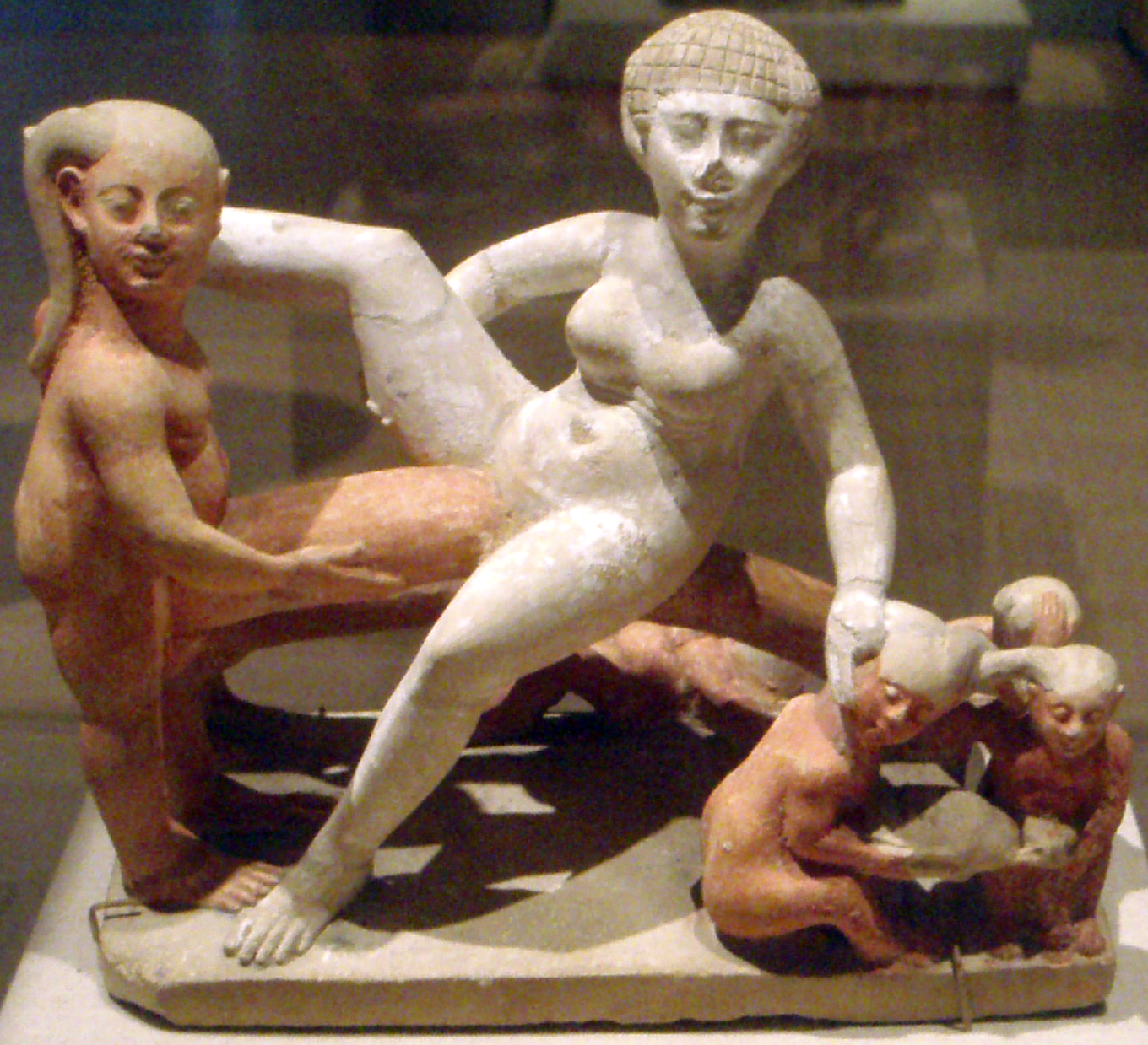 The sculpture may depict Osiris, who had been murdered, making his wife Isis pregnant after his death, which later resulted in the birth of Horus. This Ancient Egyptian myth was associated with fertility and resurrection. The six smaller figures are probably priests; two of them restrain and hold an oryx, which signifies the destruction of evil and Osiris's triumph.